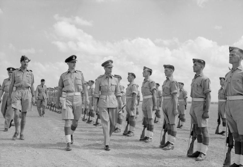 Royal Air Force Operations in the Middle East and North Africa, 1939-1943. King George VI inspects a guard of honour of the RAF Regiment on arriving at Hammamet, Tunisia, during his visit to North Africa. The tall figure on the left is Air Commodore L F Sinclair, Air Officer Commanding the Tactical Bomber Force of the North-west Allied Tactical Air Force. To his right, in the distance, Sir Arthur Tedder, the Commander-in-Chief, Mediterranean Air Command, walks down the line of airmen.